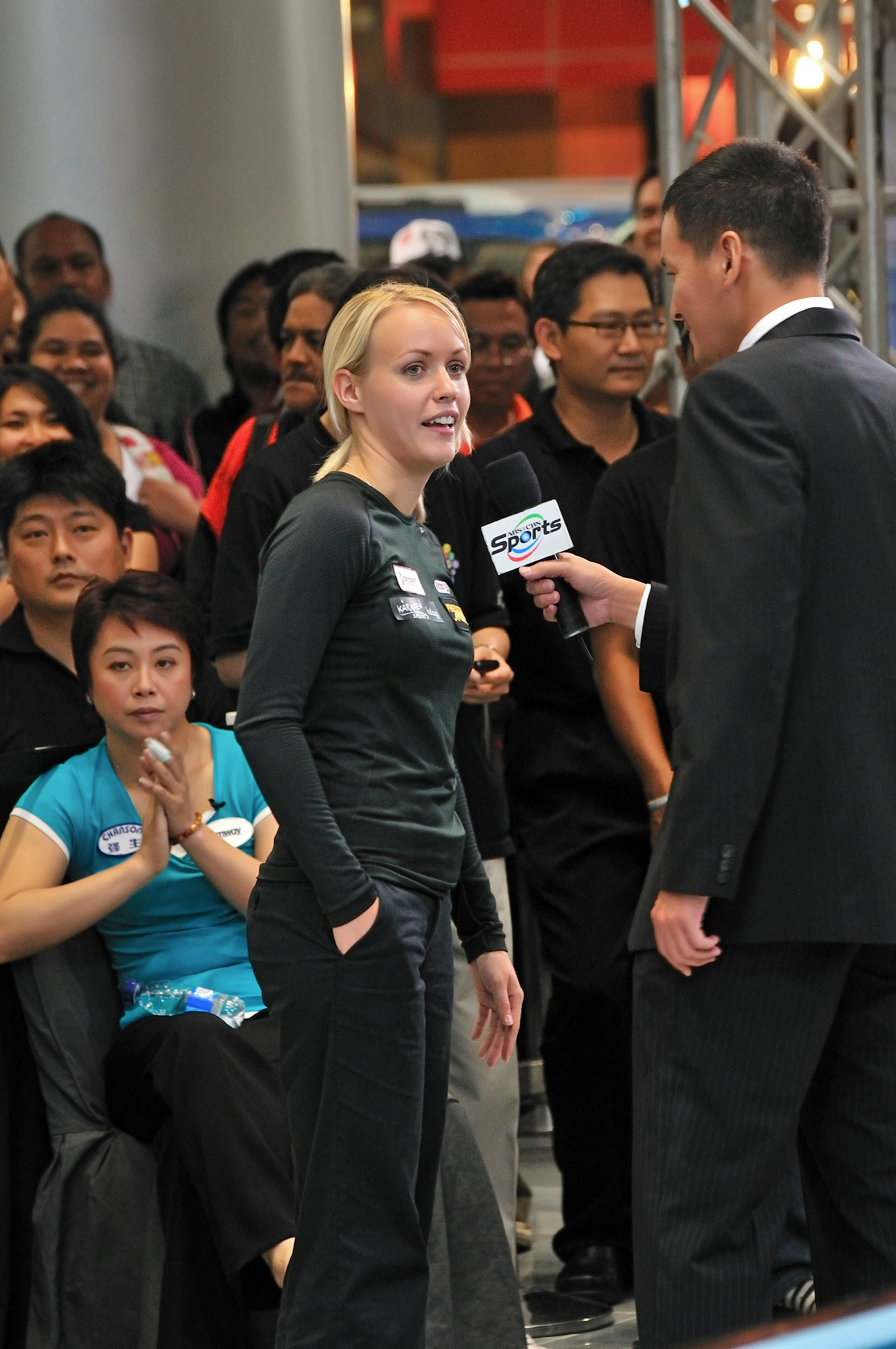 Jasmin Ouschan during a post-match speach